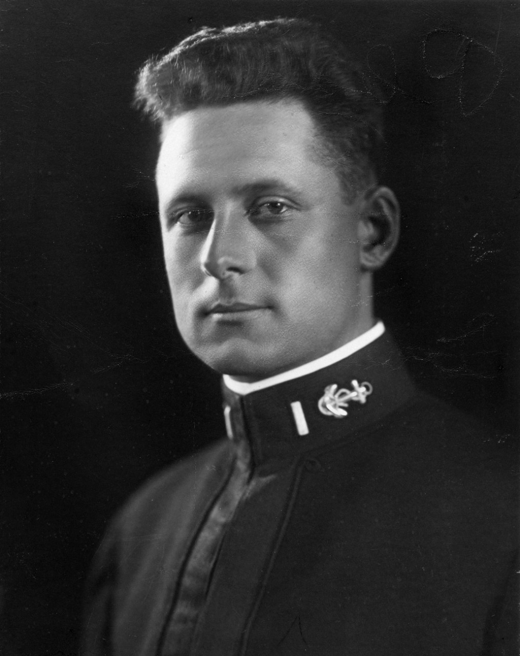 Paul Frederick Foster (March 25, 1889 – January 30, 1972) was an highly decorated officer in the United States Navy with the rank of Vice admiral. A graduate of the Naval Academy at Annapolis, he distinguished himself during the Battle of Veracruz in April 1914 and received Medal of Honor, the United States of America's highest and most-prestigious personal military decoration.